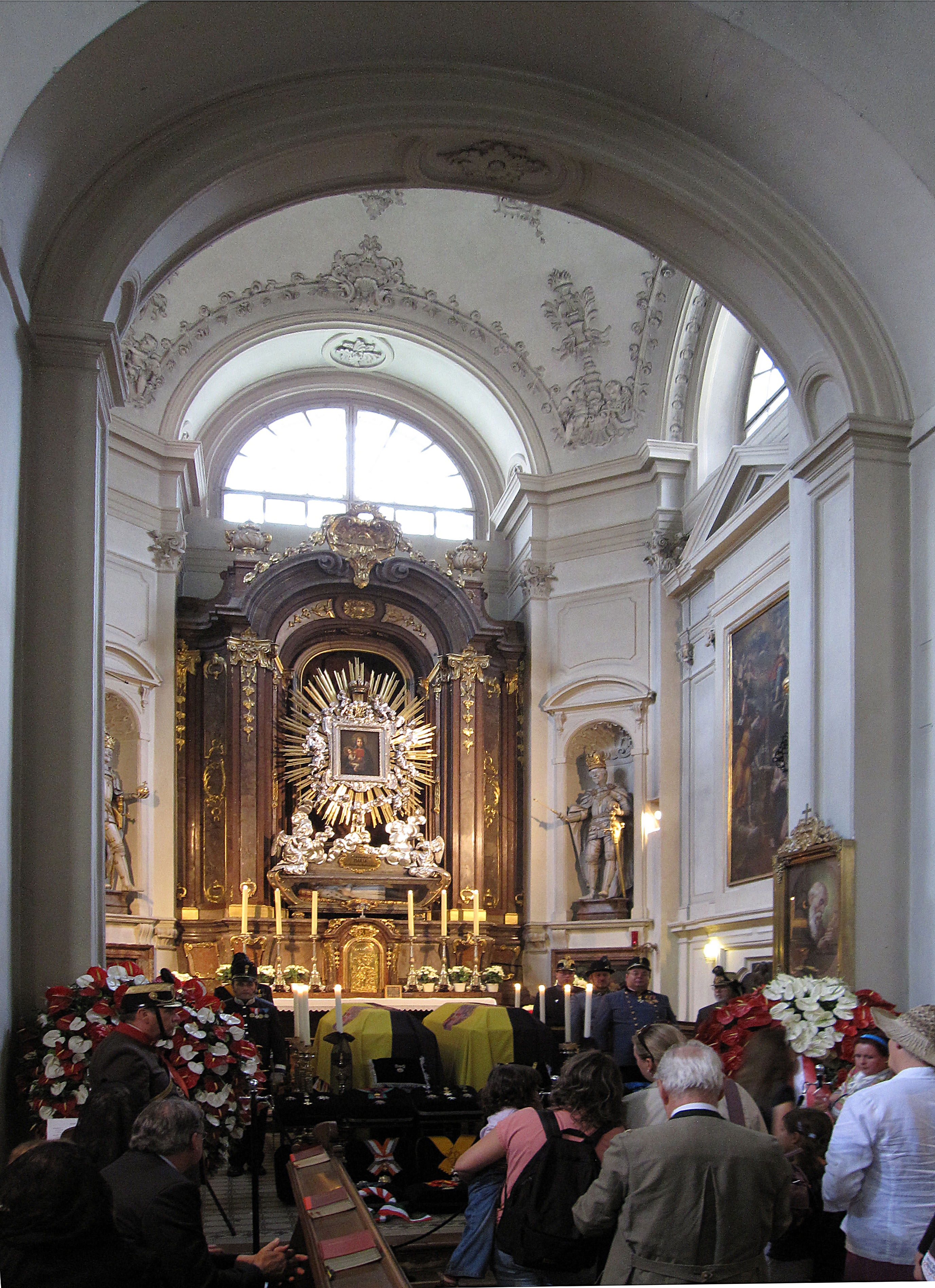 Lying in repose of Otto von Habsburg, heir to the Austrian and Hungarian thrones, and his wife Princess Regina of Saxe-Meiningen, at the Capuchin Church in Vienna on Friday, 15 July 2011.